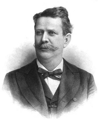 John L. Sheppard, Texas Congressman